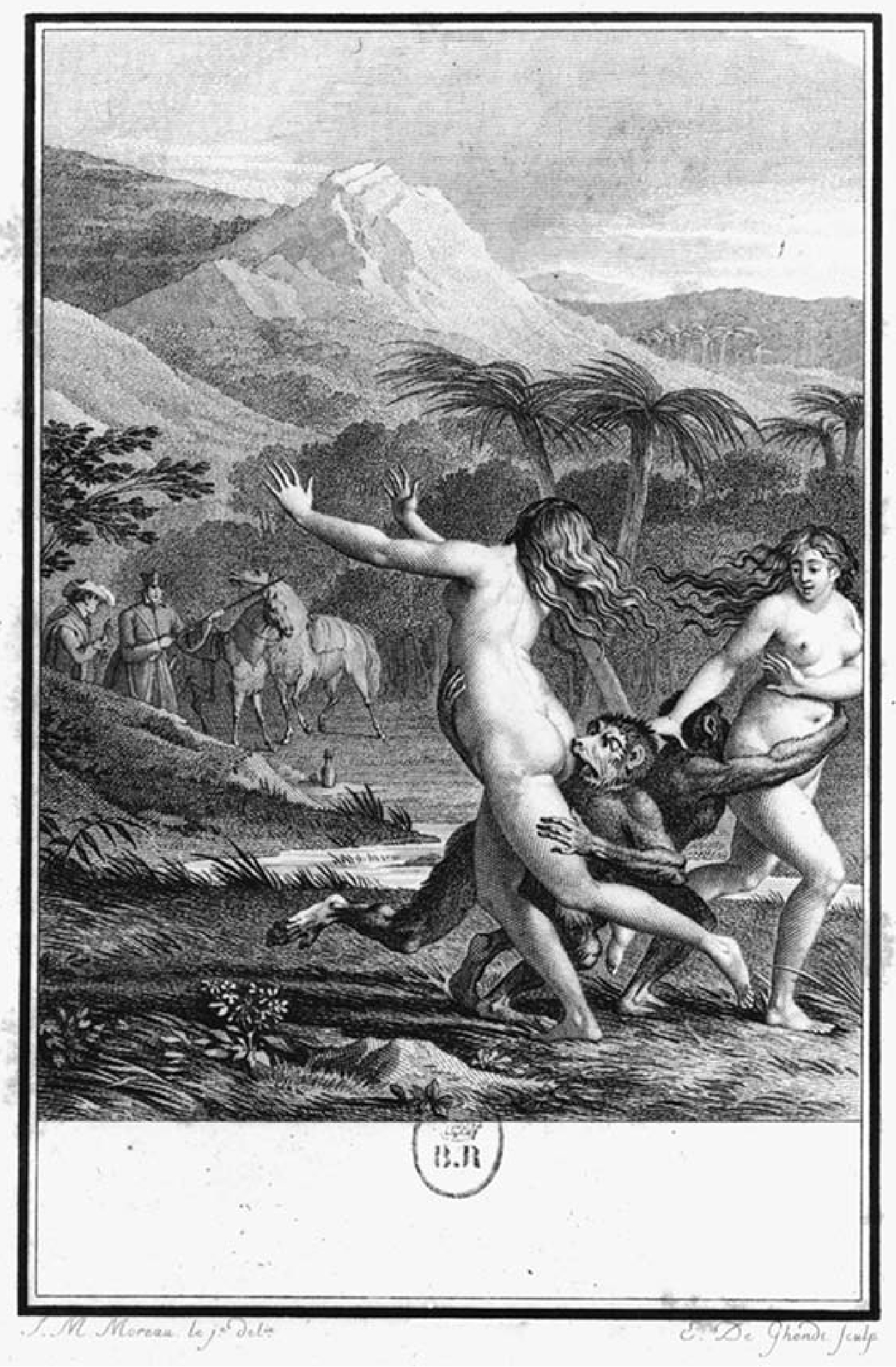 This engraving was created for a Renouard-Edition of Voltaires works in the year 1791 for Candide after Jean-Michel Moreau: it depicts the scene where Candide and Cacambo see two monkeys apparently attacking two nude women. Candide kills the monkeys, then comes to believe the monkeys and women were actually lovers. The image may have been accompanied by the caption, "The two wanderers heard a few little cries".